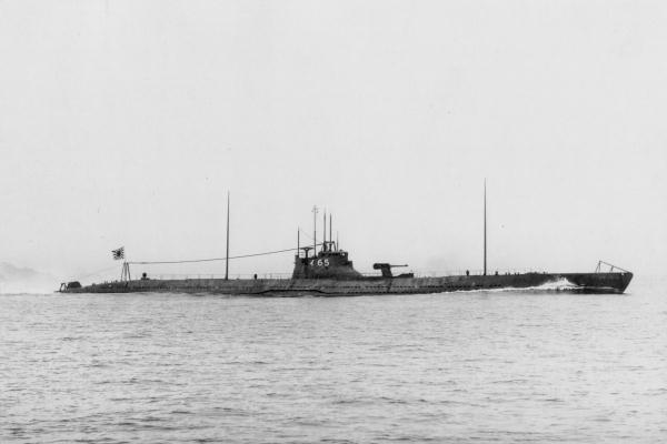 Japanese Submarine "I-165" (KAIDAI-class type-V, ex-I-65, renamed in 1942) on trial run at Hiroshima Bay.